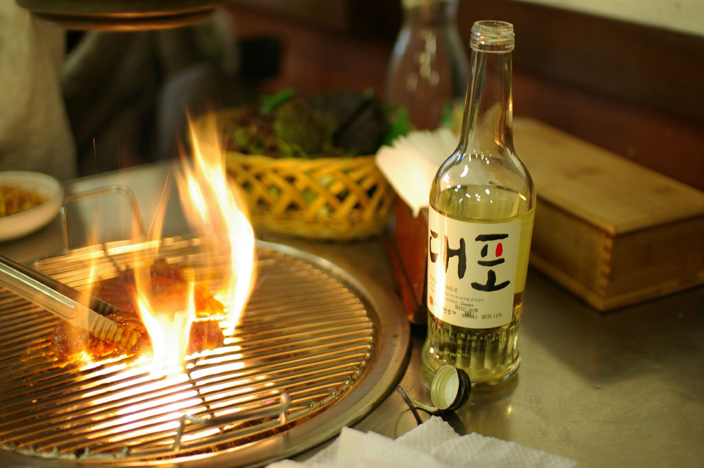 Daepo, Korean branded yakju (a type of rice wine)